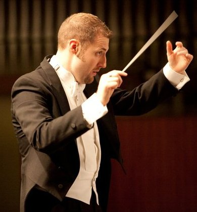 Andrew Neer conducts the Wayne State University Concert Band in April, 2011.